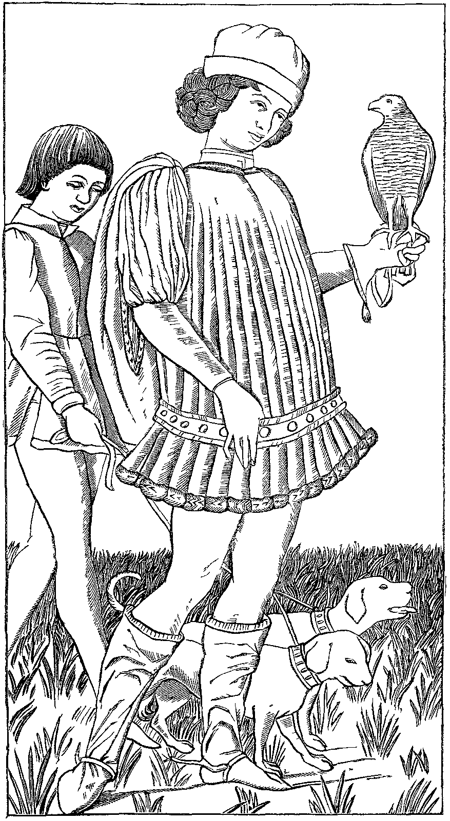 The caption reads: “Italian Nobleman of the Fifteenth Century. From a Playing-card engraved on Copper about 1460 (Cabinet des Estampes, National Library of Paris).” Project Gutenberg text 10940. — This is a free reproduction of engraving no. 5 from the E-series of the so-called Mantegna Tarocchi; the reproduction misses the ornamental margin and the original caption of the engraving, reading E --- Zintilomo · V · --- 5 (“Zintilomo” is venetian dialect for Gentleman). Today, the Mantegna Tarocchi are no longer regarded as playing cards; they may have had some educational purpose and were probably made around 1465 by an unknown artist in Ferrara.